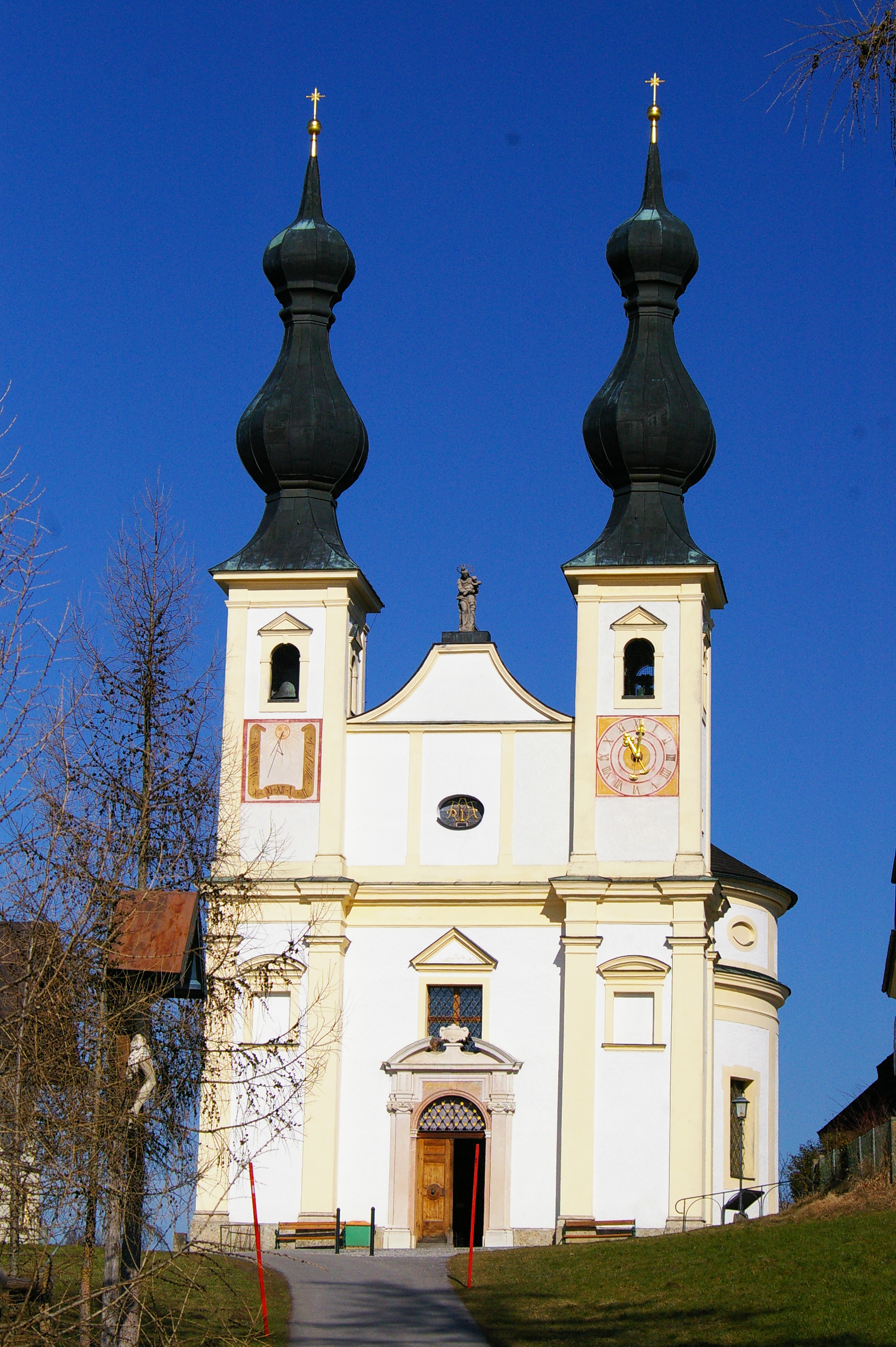 Maria Bühel